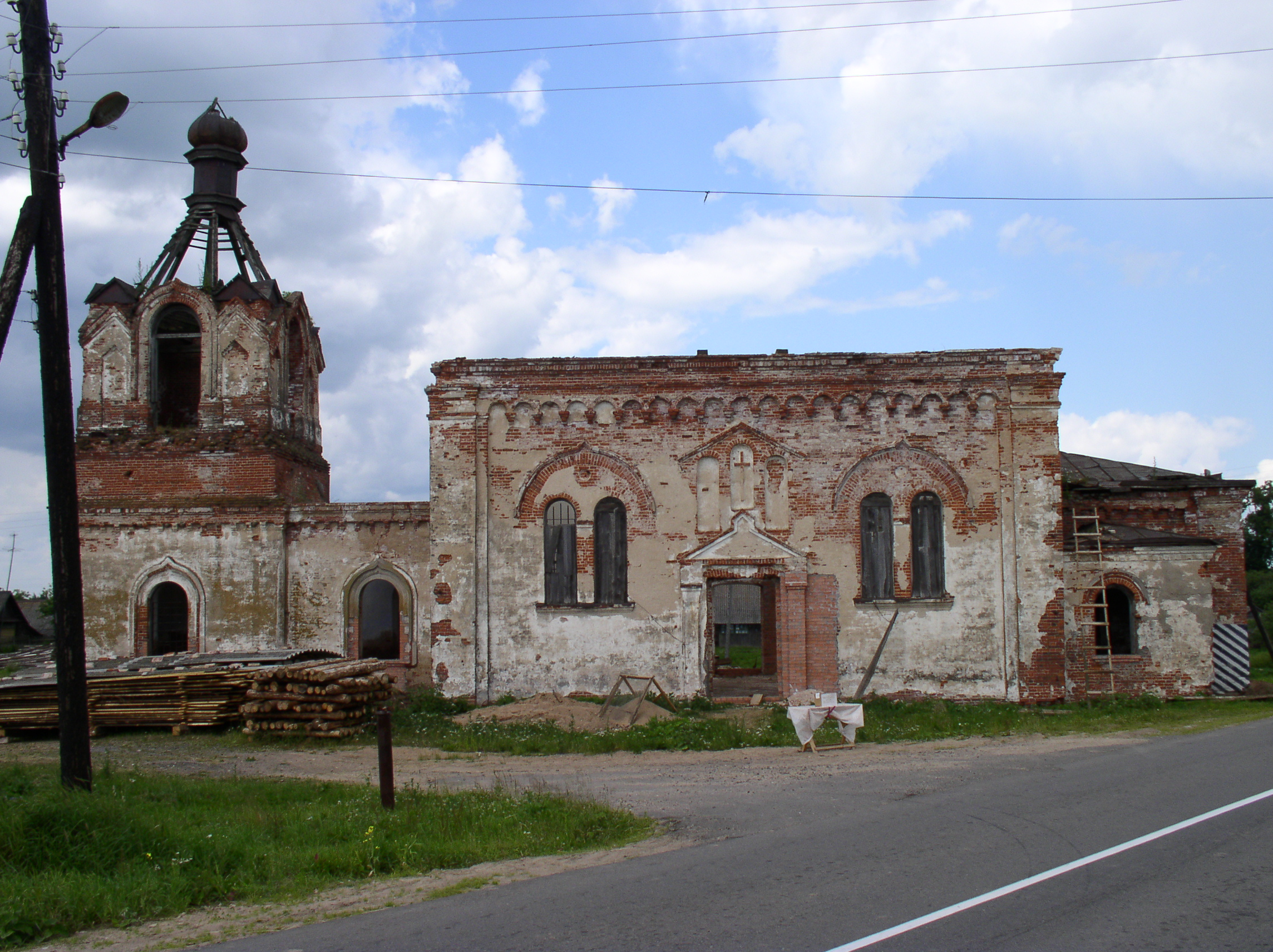 Church of Holy Trinity, Manastyr, Belarus.